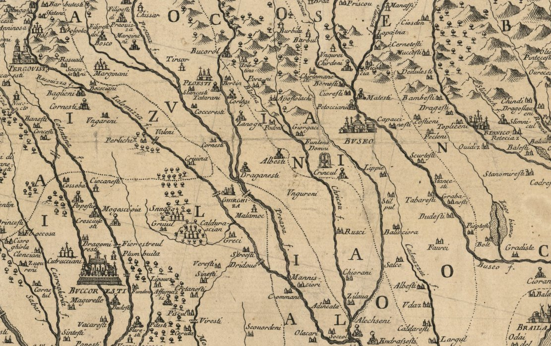 Fragment from a map of Wallachia by stolnic Constantin Cantacuzino, containing the cities of Bucharest, Târgovişte, Ploieşti, Buzău and Râmnicu Sărat and their region